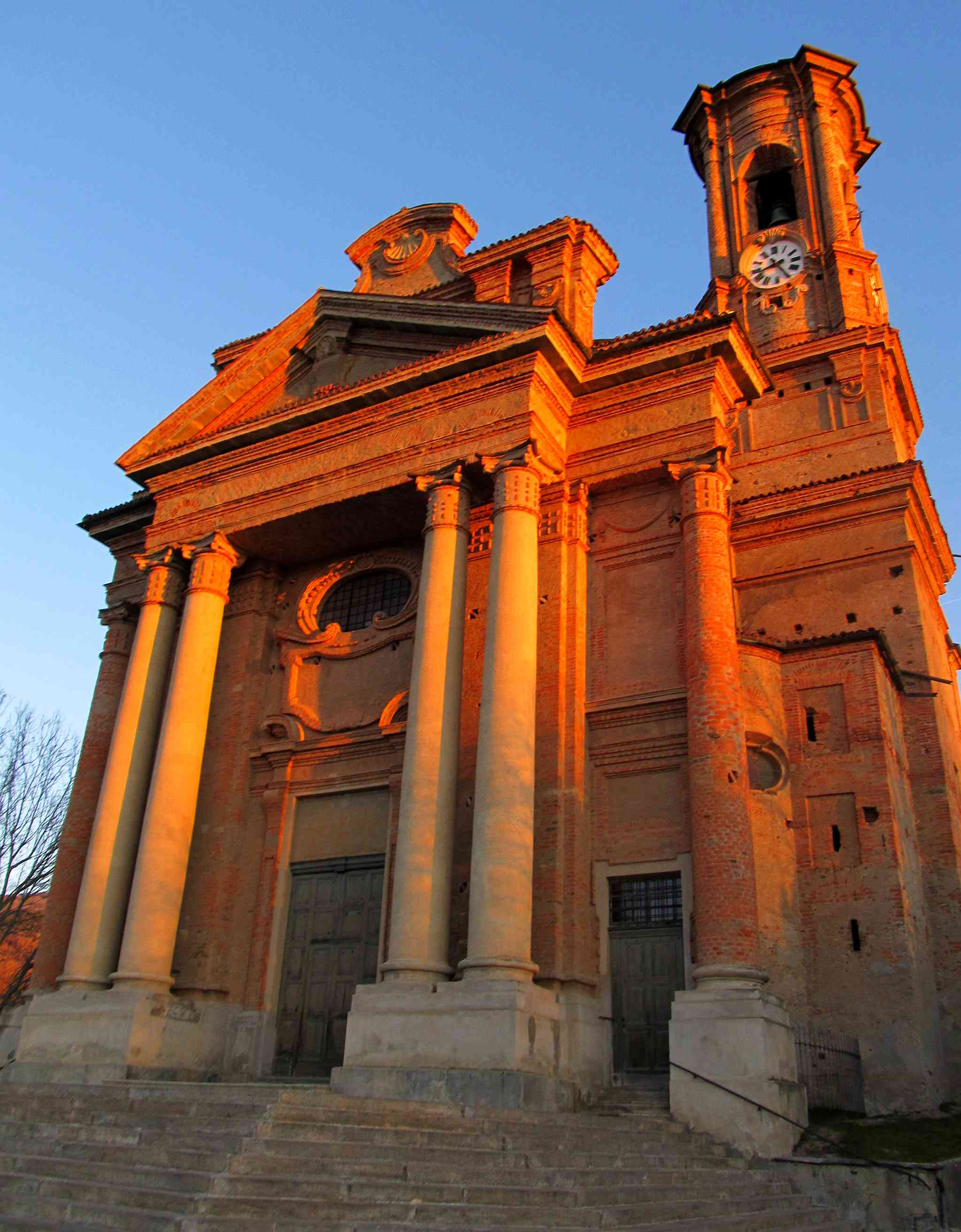 Balangero (TO, Italy): parish church